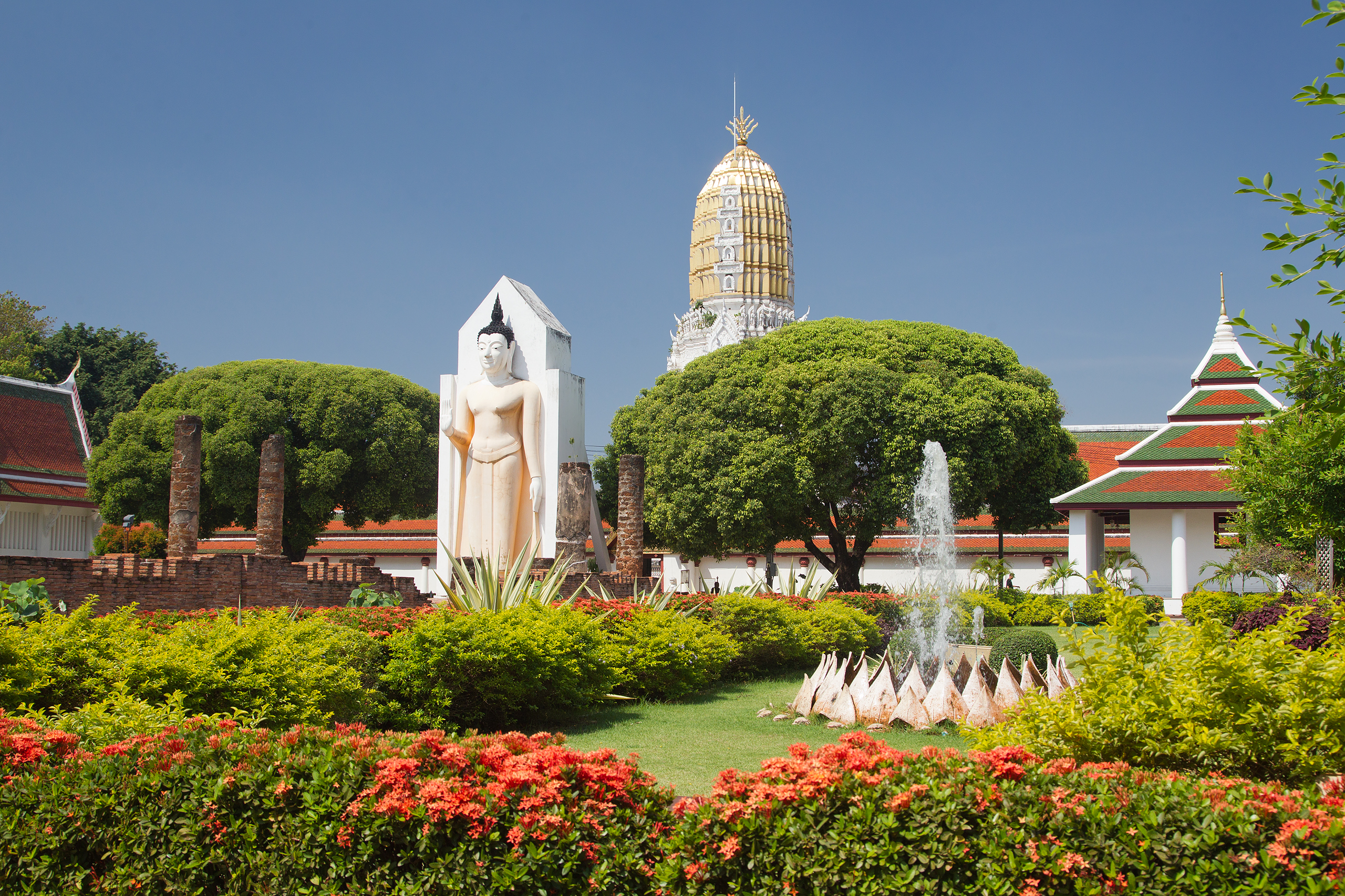 Wat Phra Si Rattana Mahathat, Phitsanulok, Phitsanulok Province, Thailand